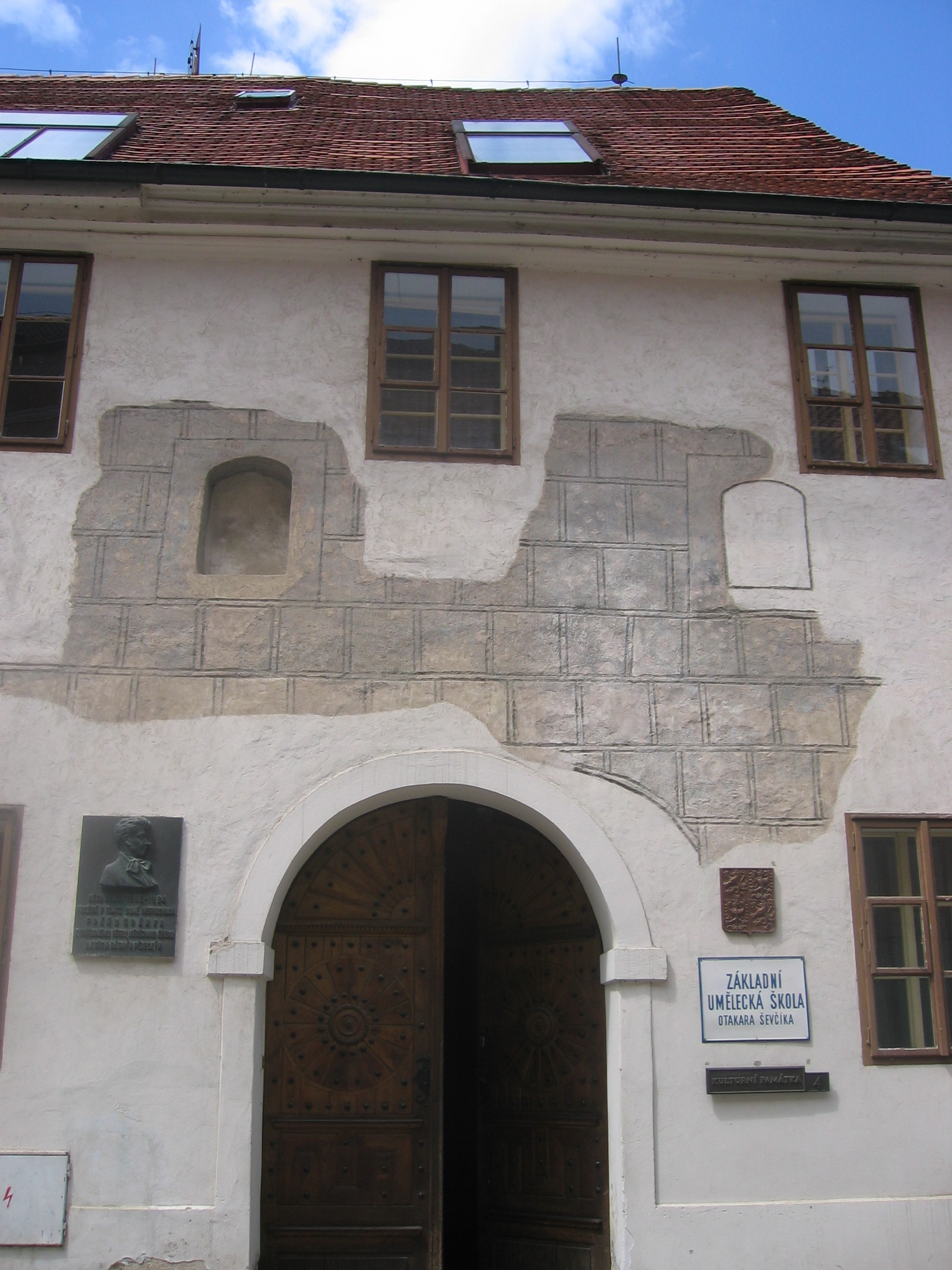 Rennaissance house "The Balls" in Šrámkova street in Písek (Czech Republic, South Bohemian Region)